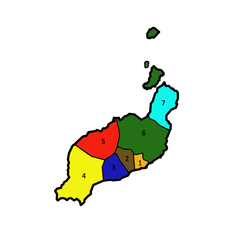 Municipalities of Lanzarote, Canary Islands.